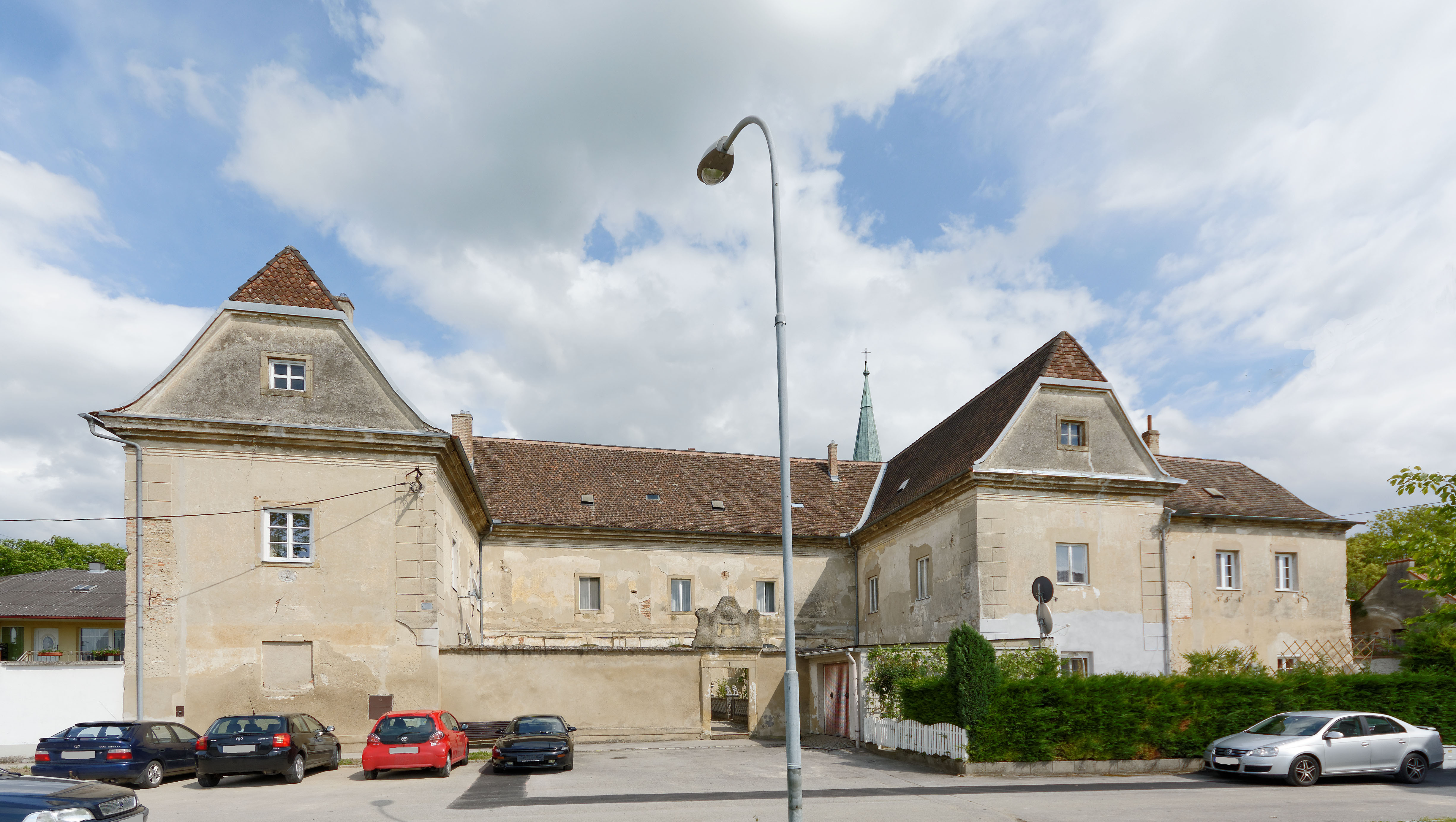 Palace in Hauskirchen, Lower Austria, Austria